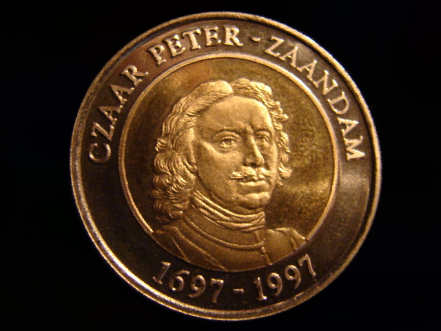 Tsar Peter coin Zaandam